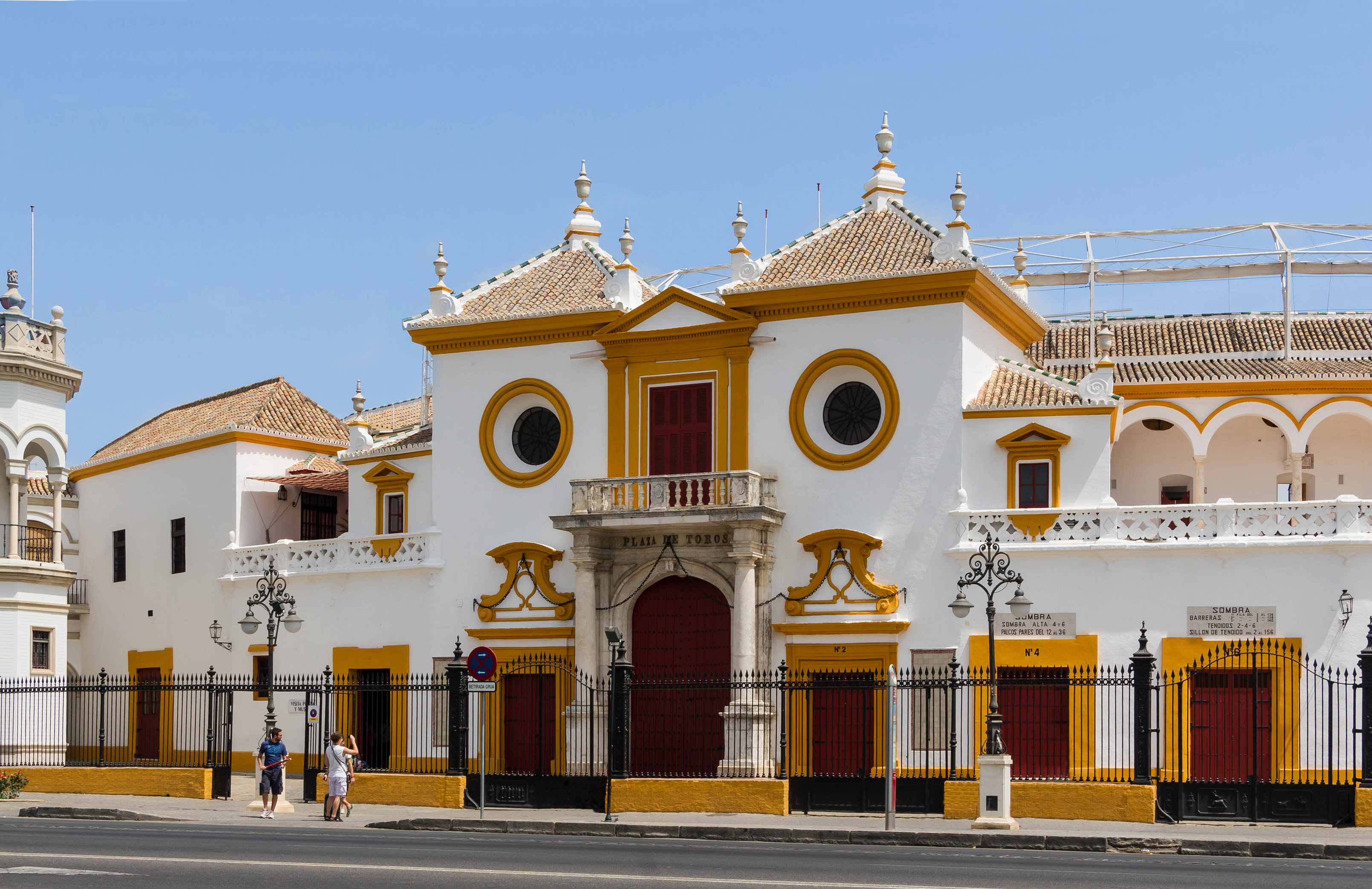 The main entrance (Puerta del Principe, the gate of the Prince) of the bullring of the Real Maestranza de Caballeria, Seville, Spain.